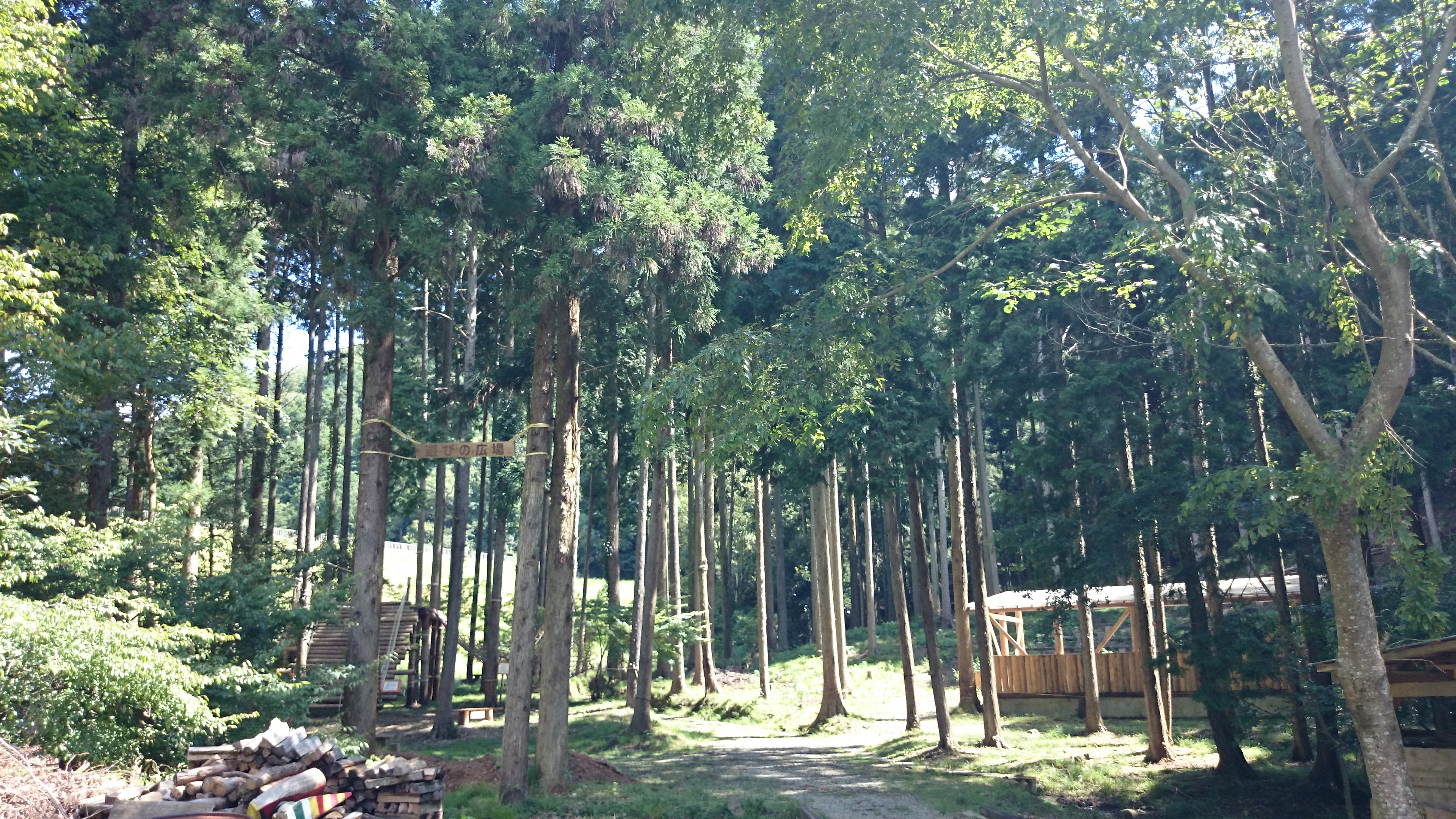 20150824 Park of Yumesaki-no-mori ゆめさきの森公園 〒671-2116 兵庫県姫路市夢前町寺2160-2 TEL：079-337-3220 FAX：079-337-3221